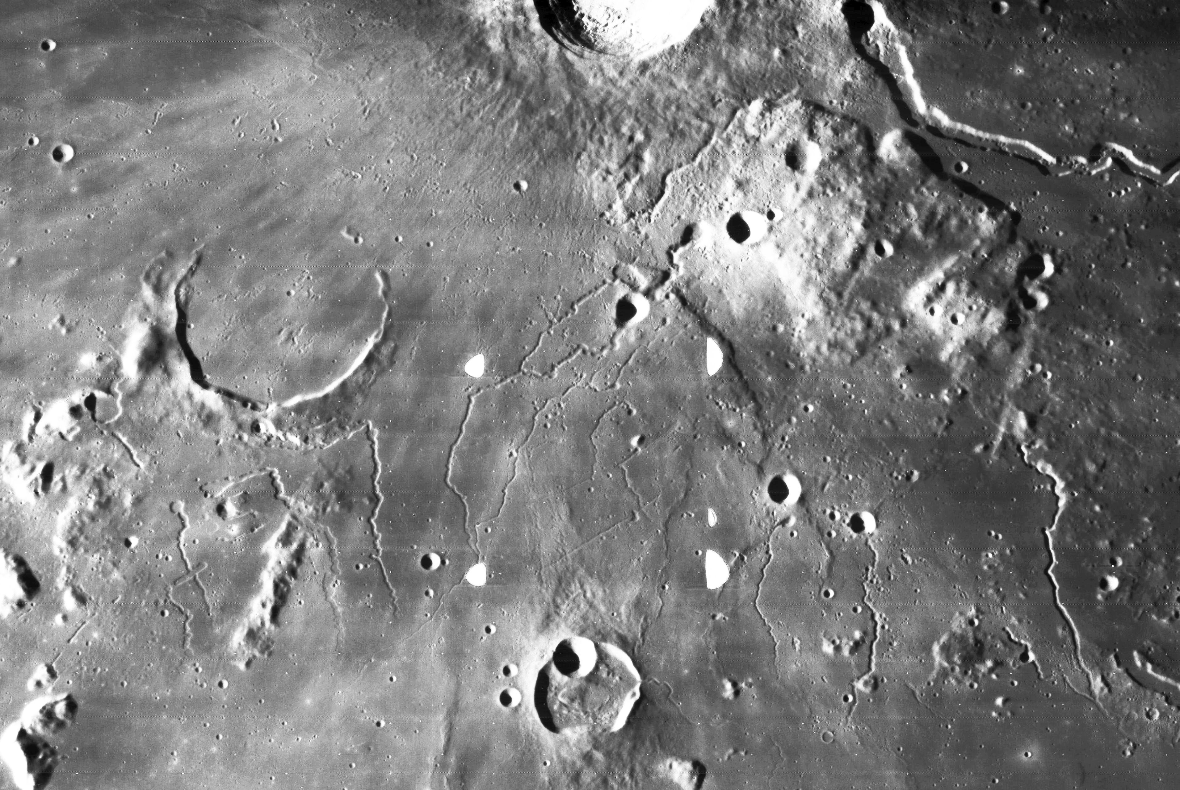 Photo of Lunar Orbiter 4 with crater Aristarchus and Vallis Schroteri (detail)